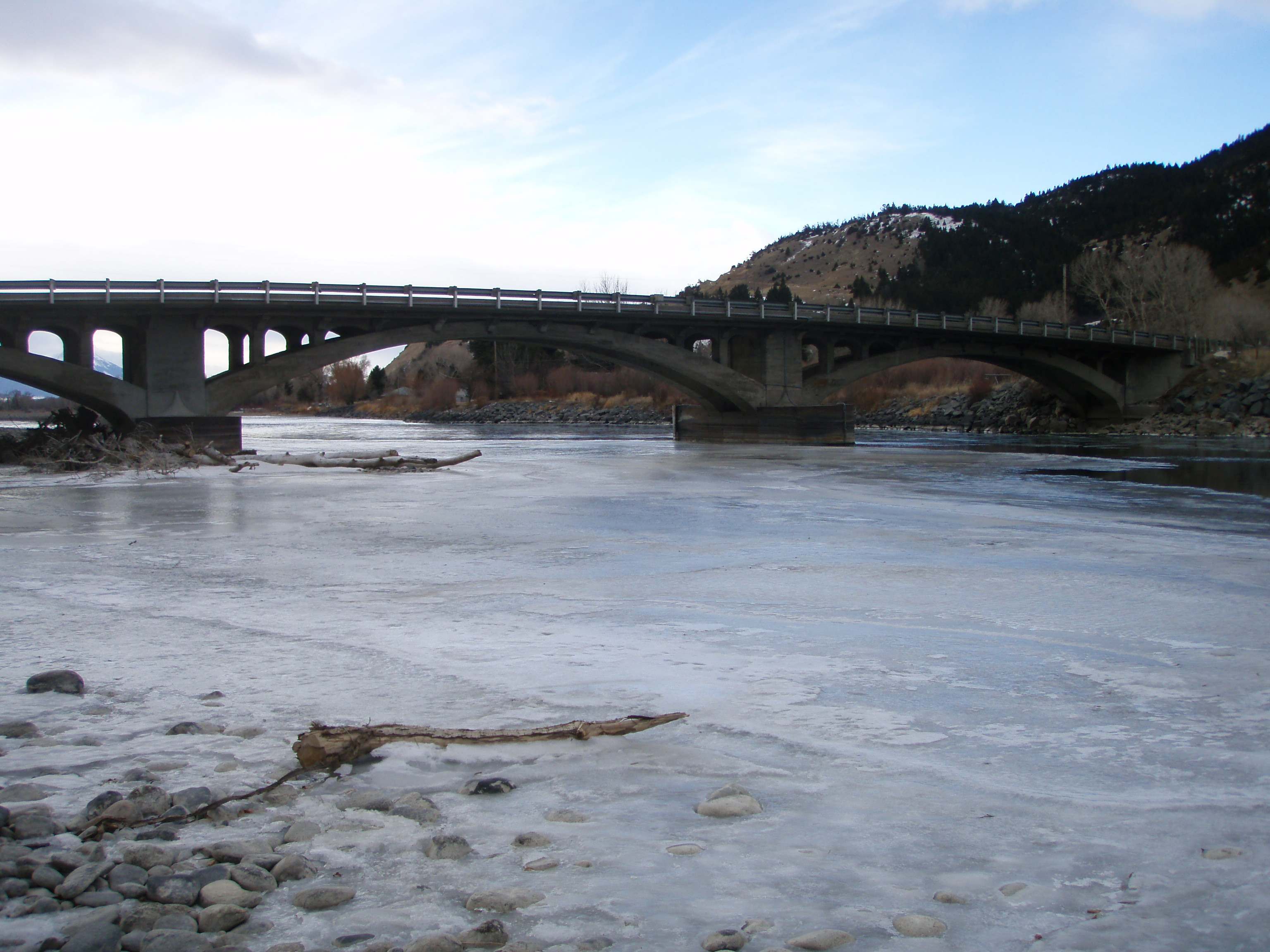 Yellowstone River in January 2008 at Carter's Bridge